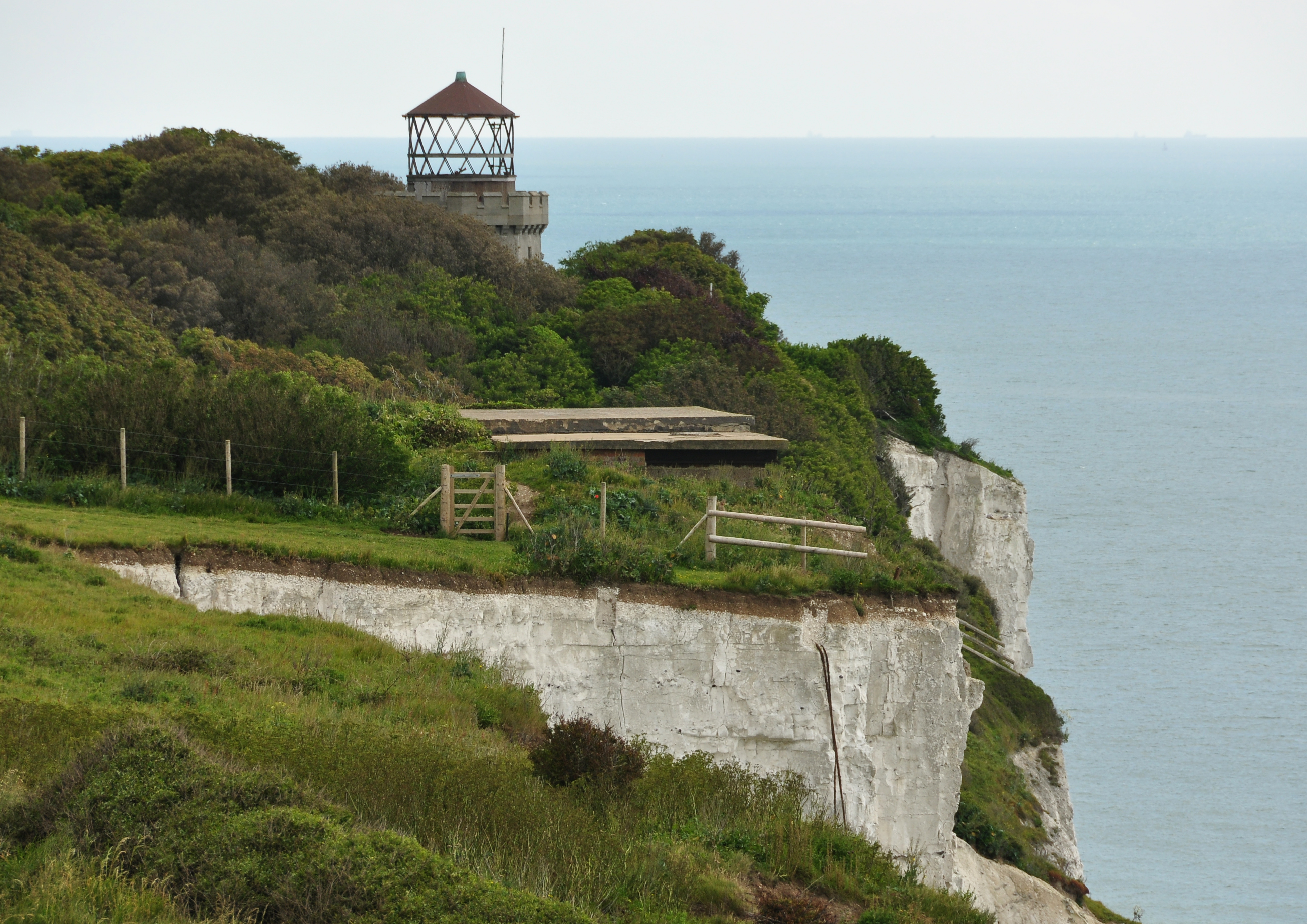 An FC position and the Old Lighthouse at St Margaret's at Cliffe, to the east of Dover, Kent.